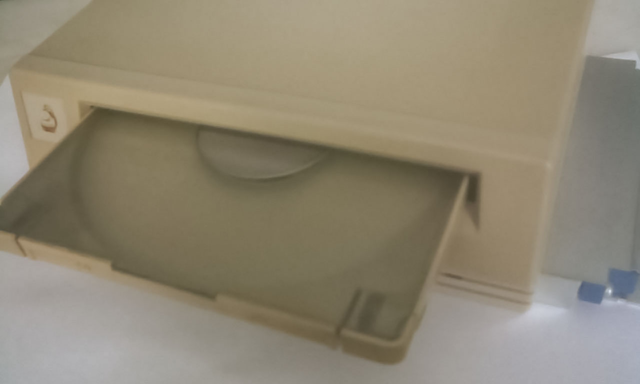 Commodore A570 CD-ROM drive for the Amiga 500 and 500 Plus computers. (This one has lost its "Commodore A570" badge (top left).